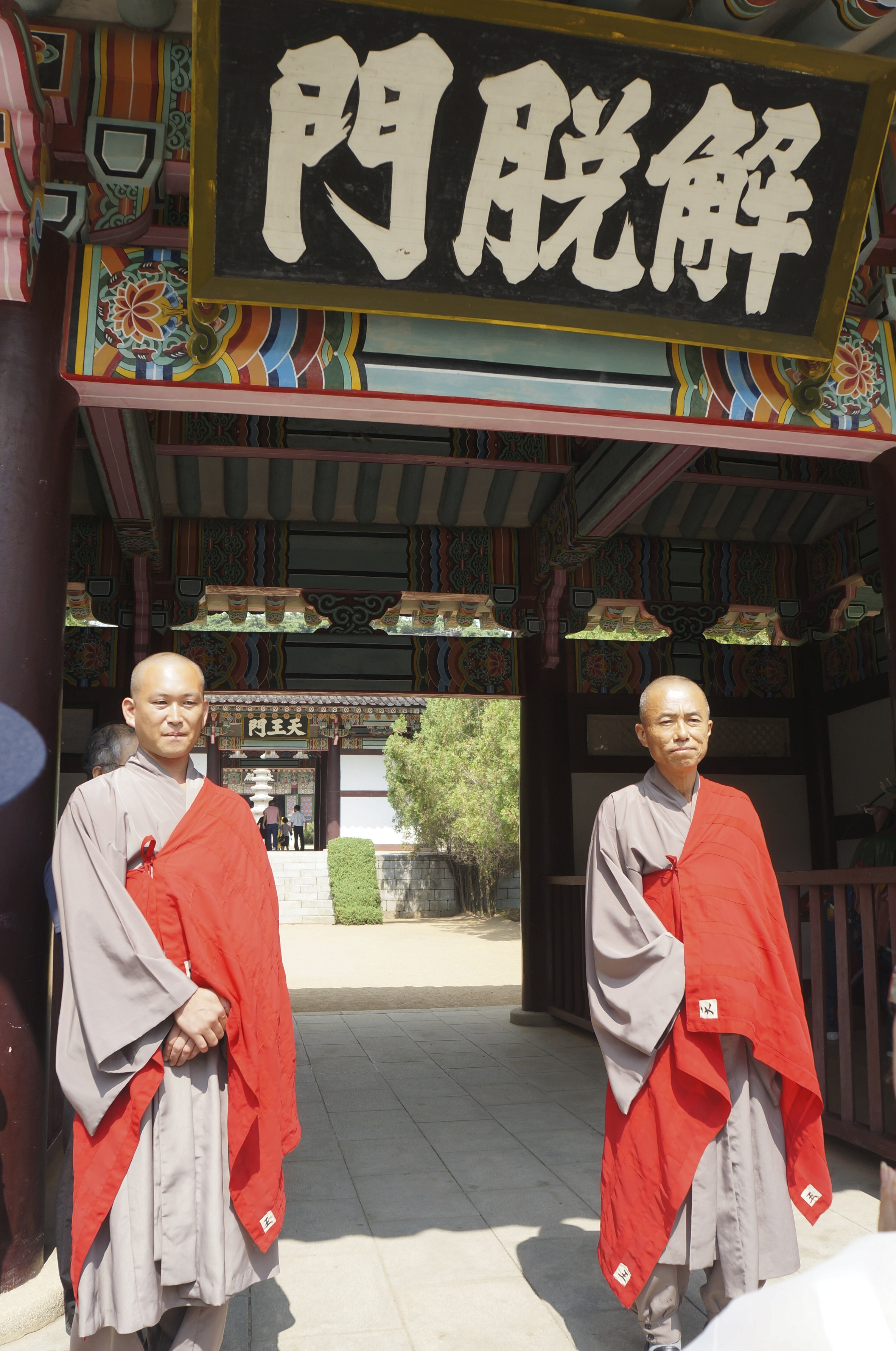 광법사 For more information on this temple, visit